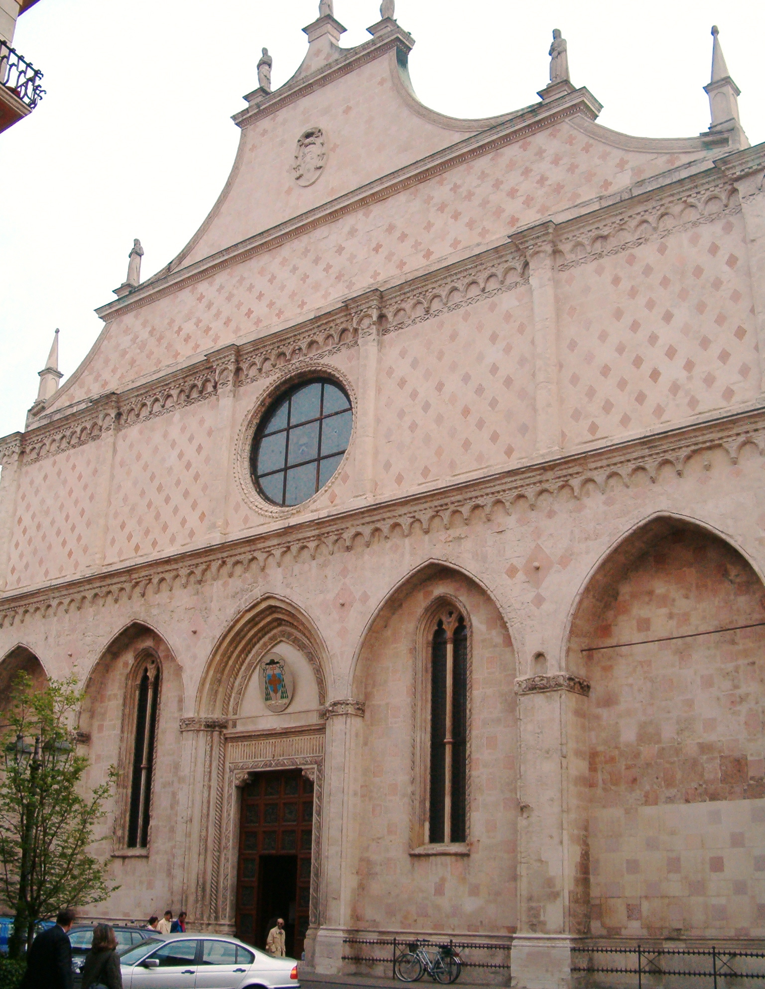 Cathedral of Vicenza, facade.